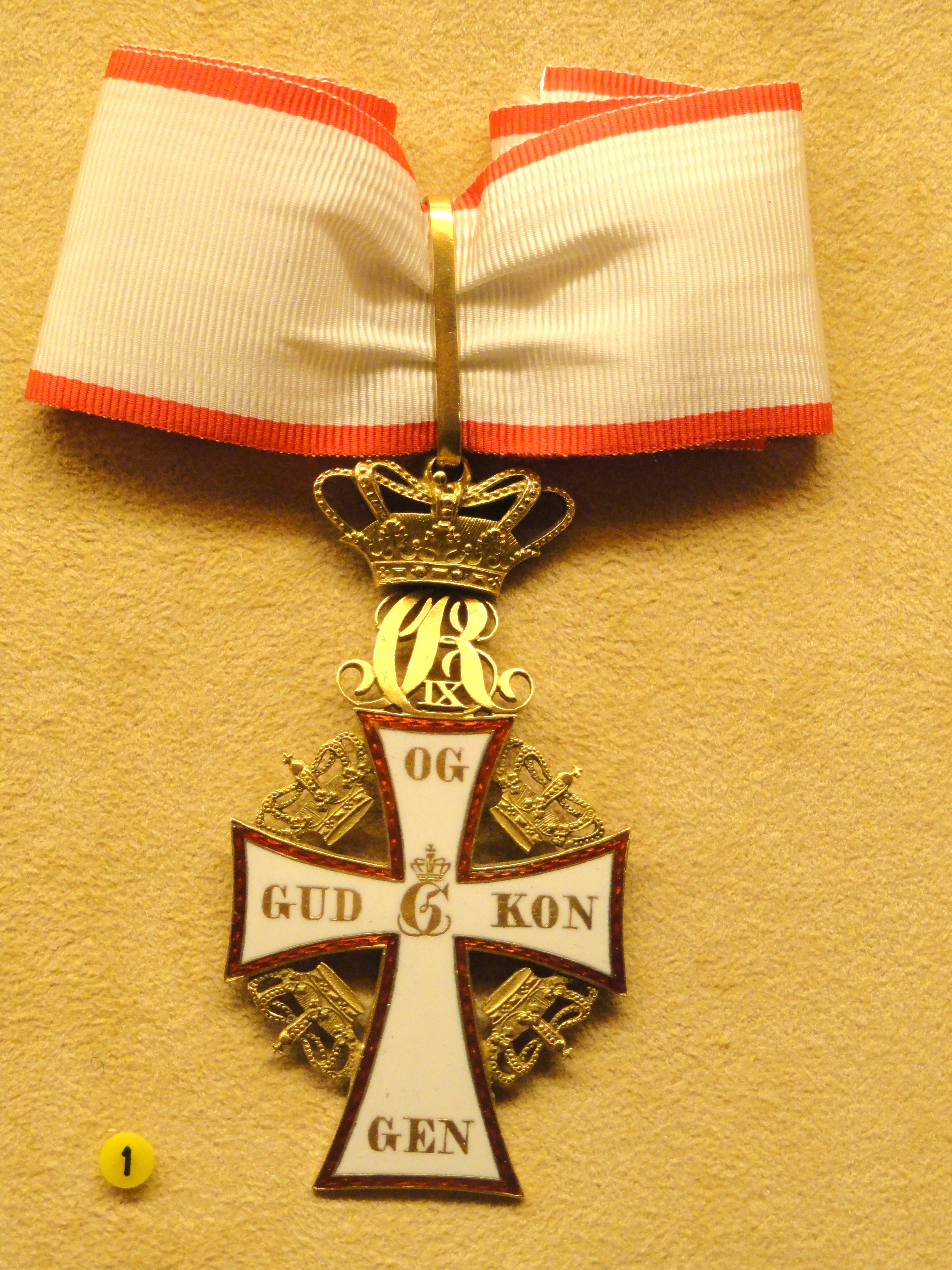 Award in the National Museum of Finland, Helsinki, Finland. This artwork is in the public domain because the artist(s) died more than 70 years ago.